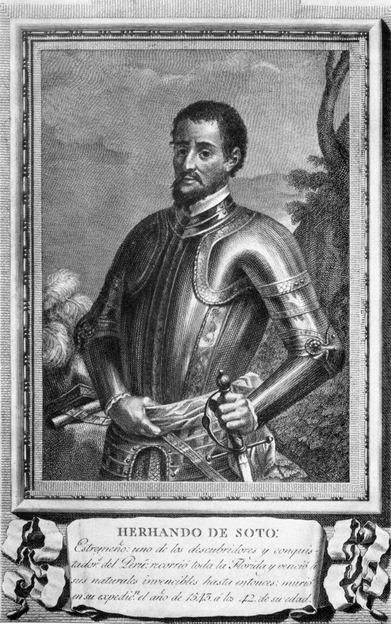 "AN OLD PORTRAIT OF HERNANDO DE SOTO (ca. 1500-1542). Engraving from Retratos de los Españoles Illustres con un Epítome de sus Vidas, Madrid, Imprenta real, 1791." Caption, translated from